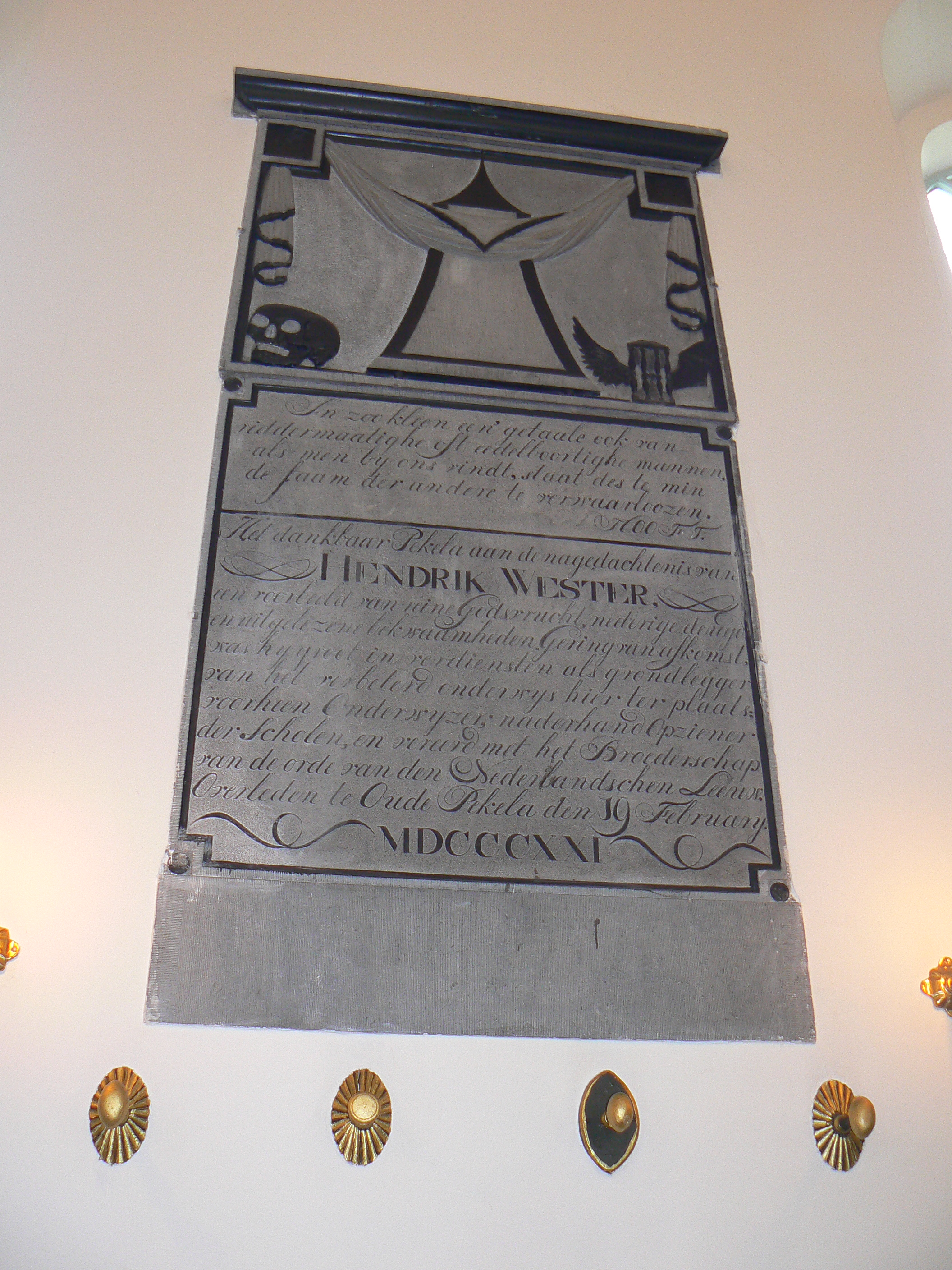 NH Kerk in Pekela/The Netherlands: interior - Hendrik Wester Memorial